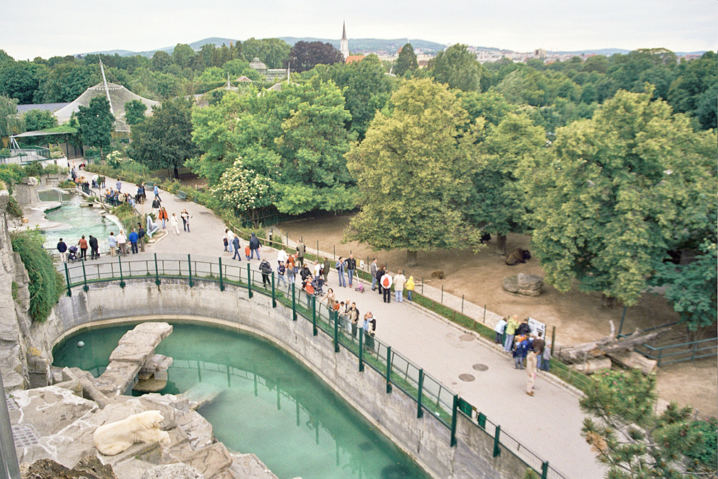 Austria, Vienna, Tiergarten Schönbrunn